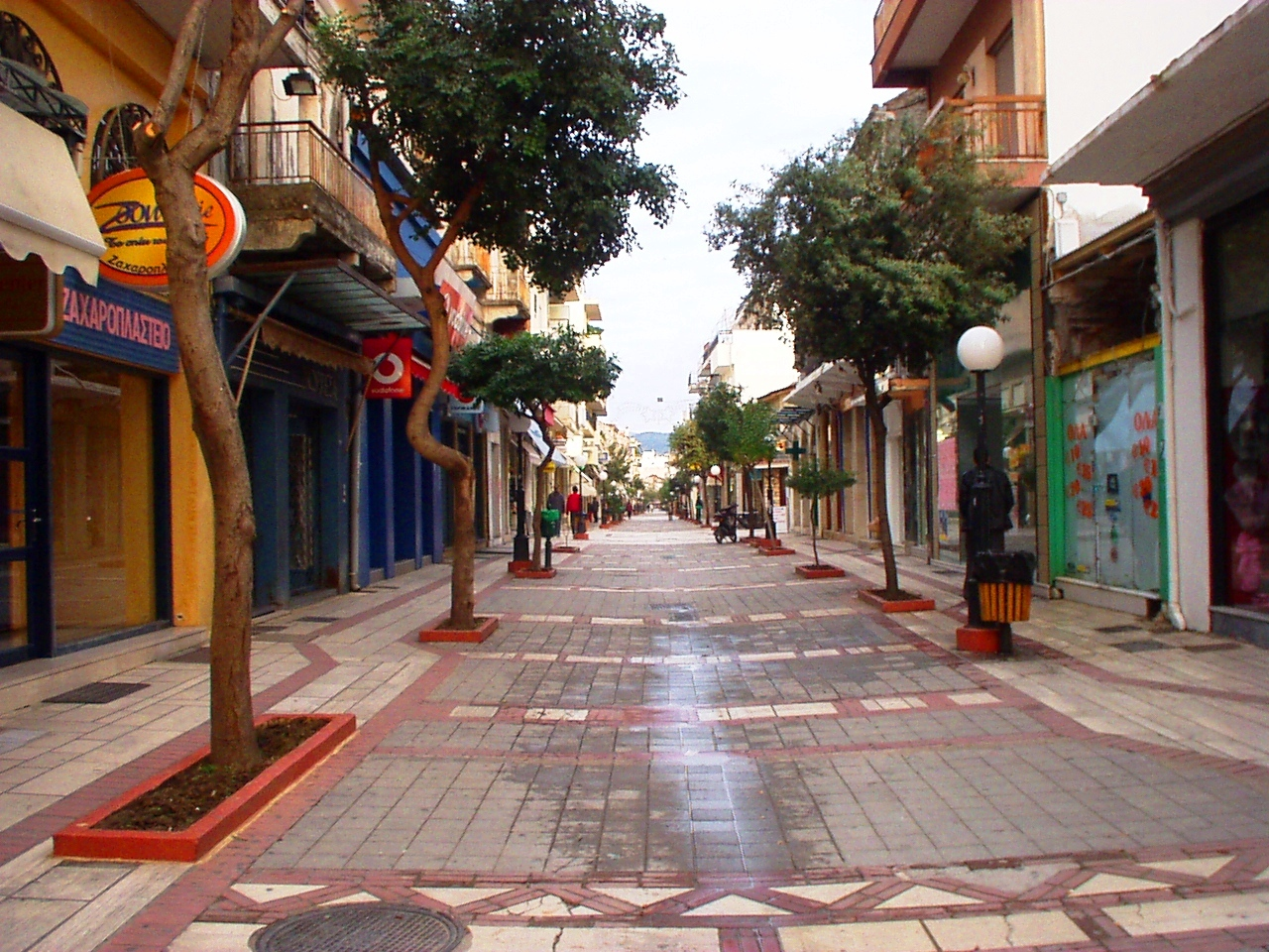 Nikolaos Skoufas pedestrian street in Arta, Greece